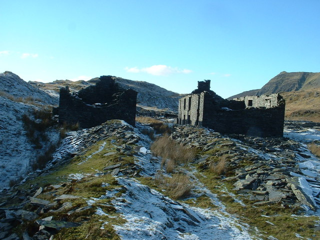 Quarry buildings at Rhosydd Taken on a day of very heavy hoar frost, already melting on the south facing slopes.